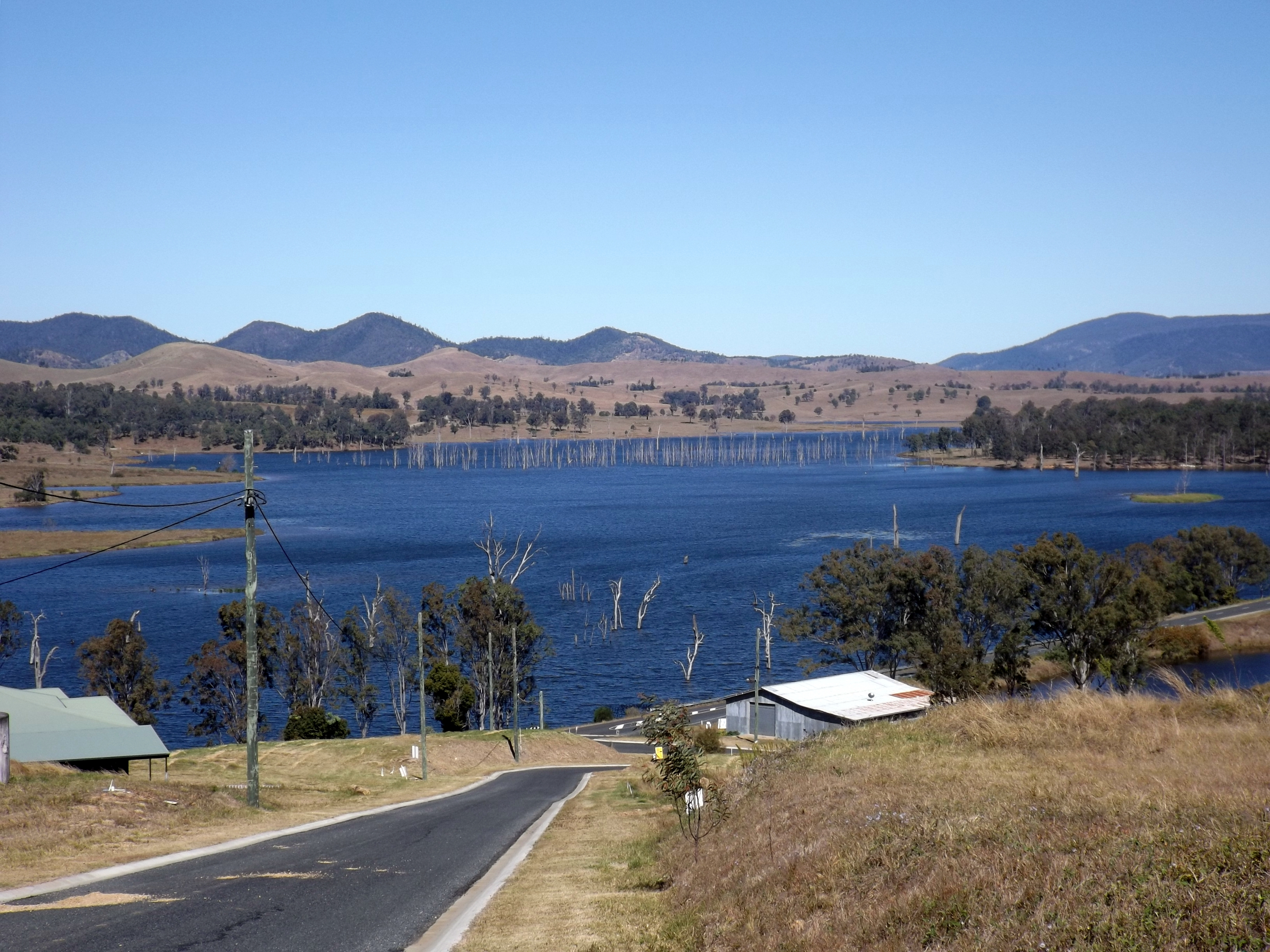 Photo of Somerset Dam at Villeneuve, Somerset Region, Queensland, Australia. Westvale can be seen in the background.